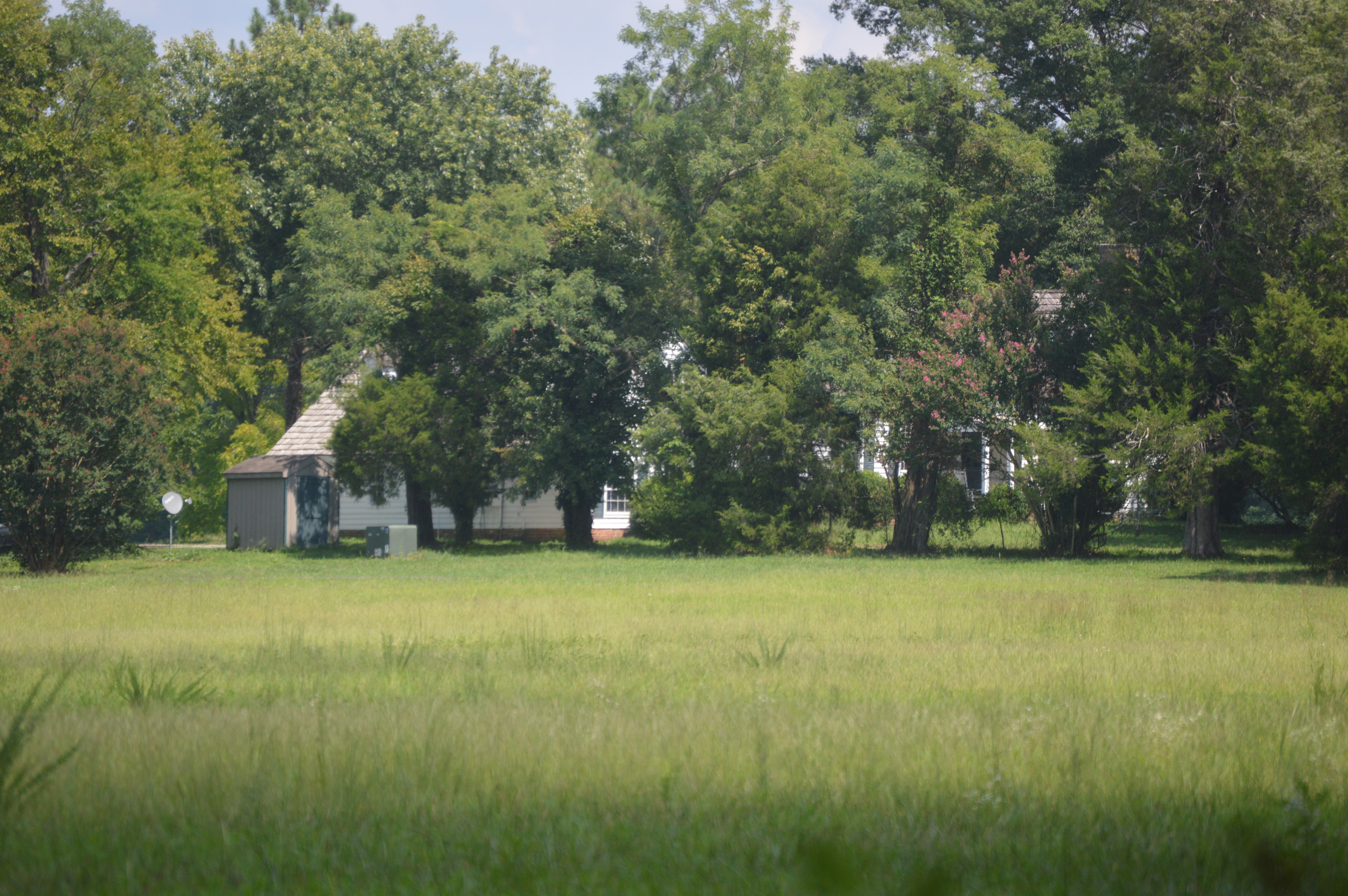 Distant view of Spring Green, located at 2160 Old Church Road southeast of Old Church in eastern Hanover County, Virginia, United States. Built in 1800, it is listed on the National Register of Historic Places.